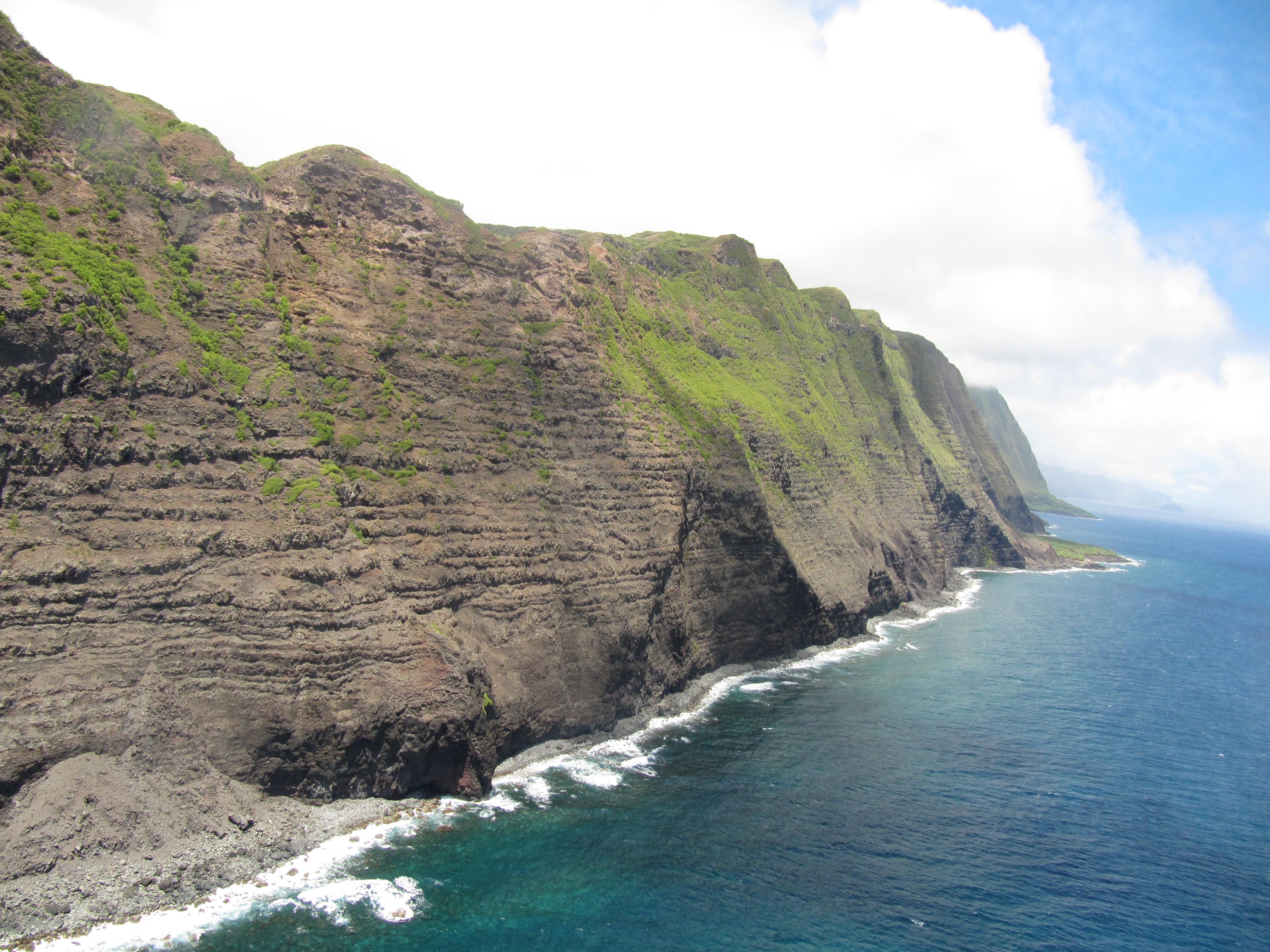 A view of the Molokai sea cliffs taken from a helicopter.